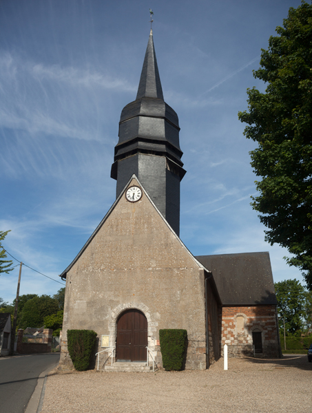 église Notre-Dame; Morgny, Eure, Haute-Normandie, France; ; ref: PM_093408_F_Morgny; ; Photographer: Paul M.R. Maeyaert; © Paul M.R. Maeyaert; ; Cultural heritage; Europeana